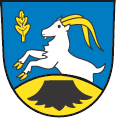 Coat of Arms of Steinheuterode